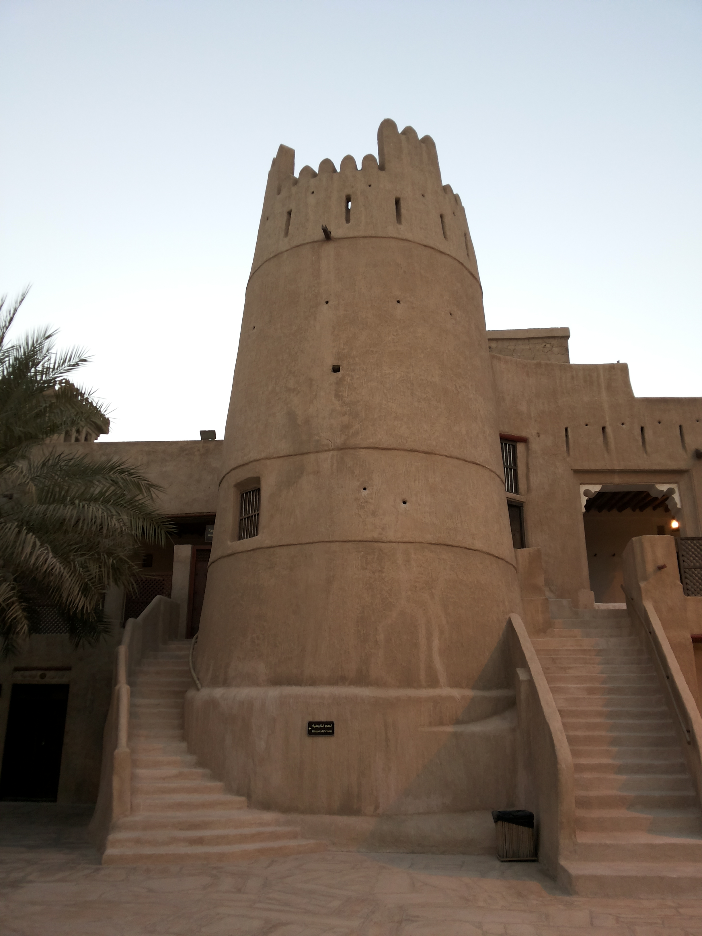 Tower at Ajman Fort, today museum